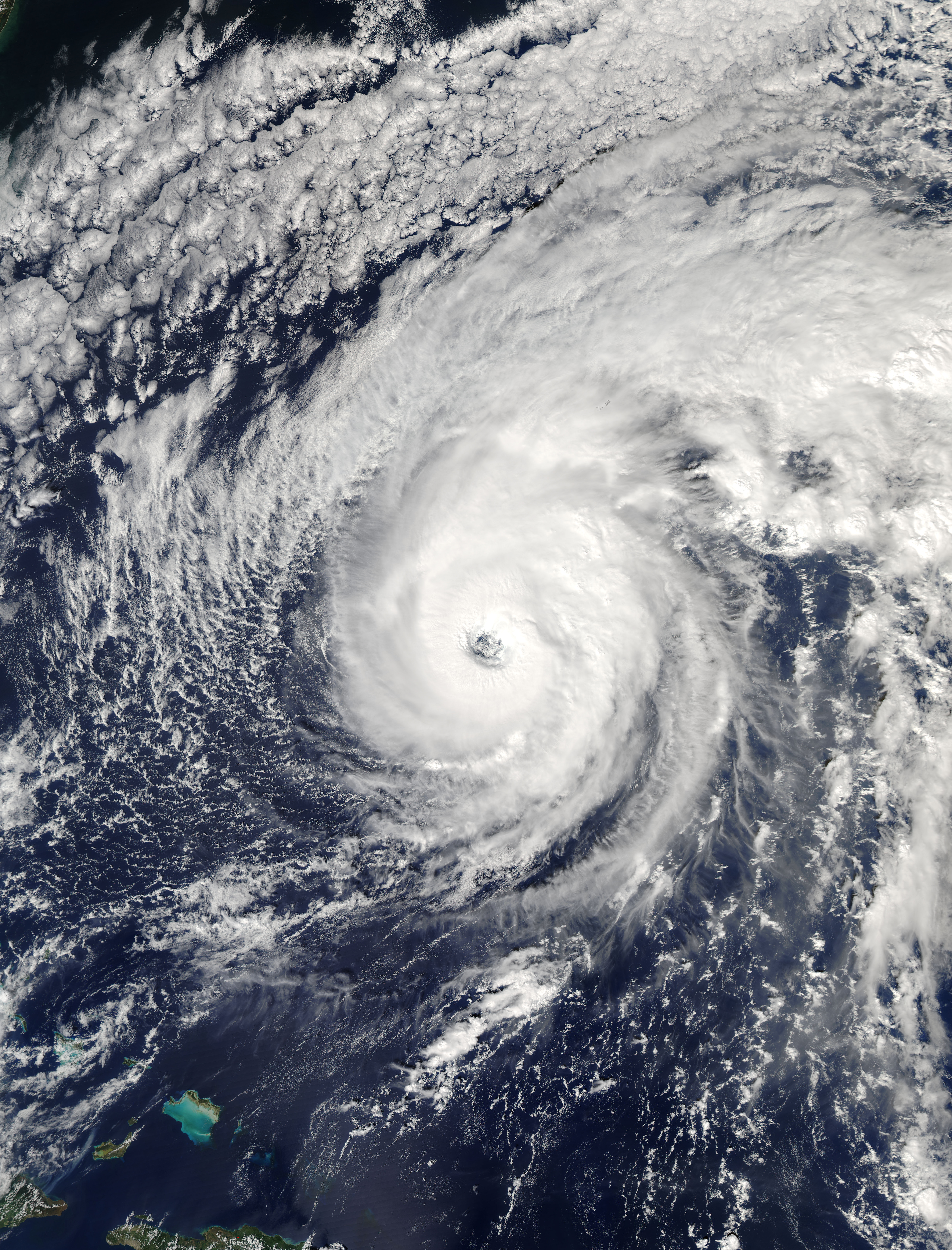 Hurricane Nicole (15L) approaching Bermuda